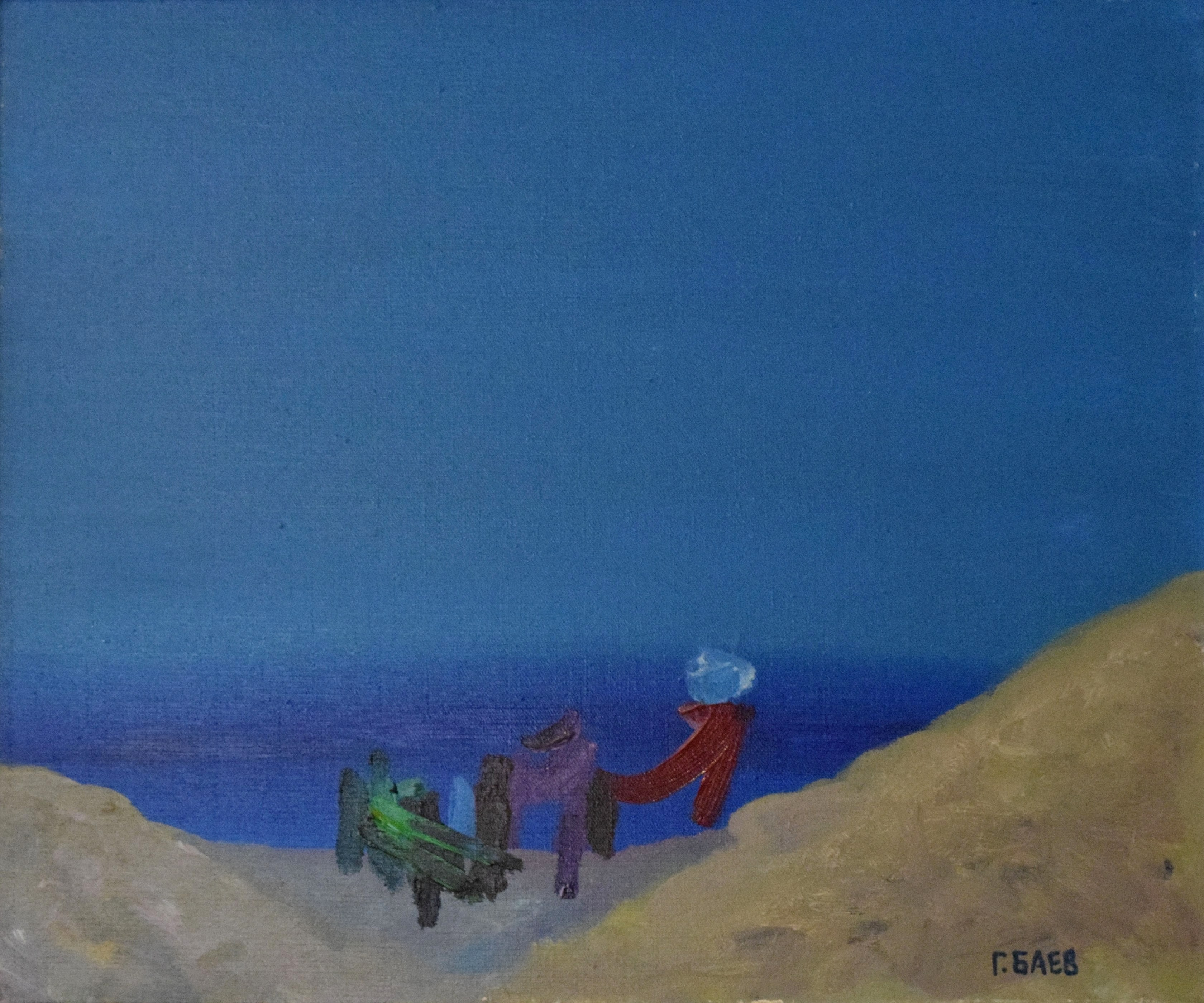 A painting of Bulgarian painter Georgi Baev